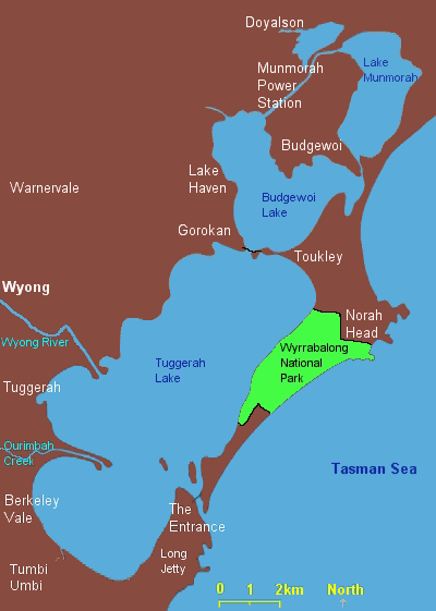 Map of Tuggerah Lake in New South Wales, Australia, showing features and principal locations.